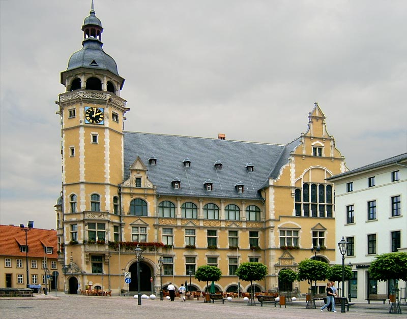 Town hall of Köthen (Anhalt). Architects: Heinrich Reinhardt & Georg Süßenguth.